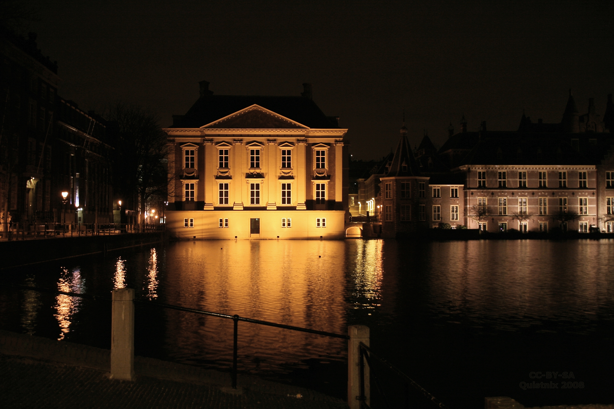 Netherlands, The Hague: Mauritshuis and Binnenhof at night, seen from the Lange Vijverberg